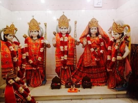 kala sanghia